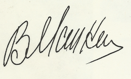 Подпись Манкина Валентина Григорьевича, The signature of Valentin Mankin